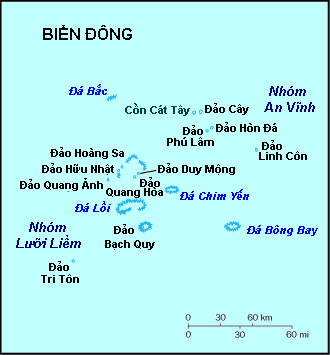 Map of ParacelIs lands in Vietnamese